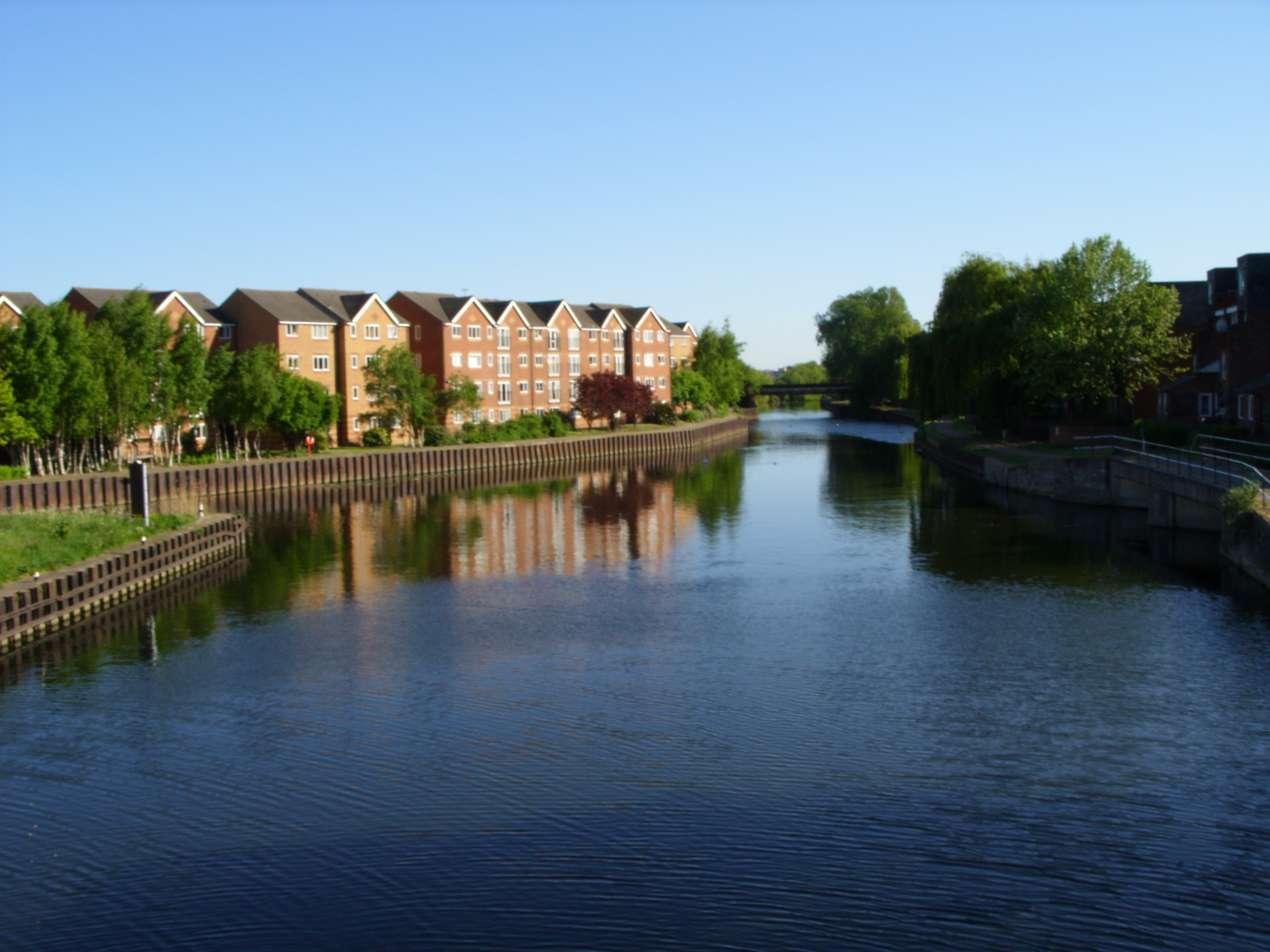 View of the River Lea looking south from Ferry Lane, London N17